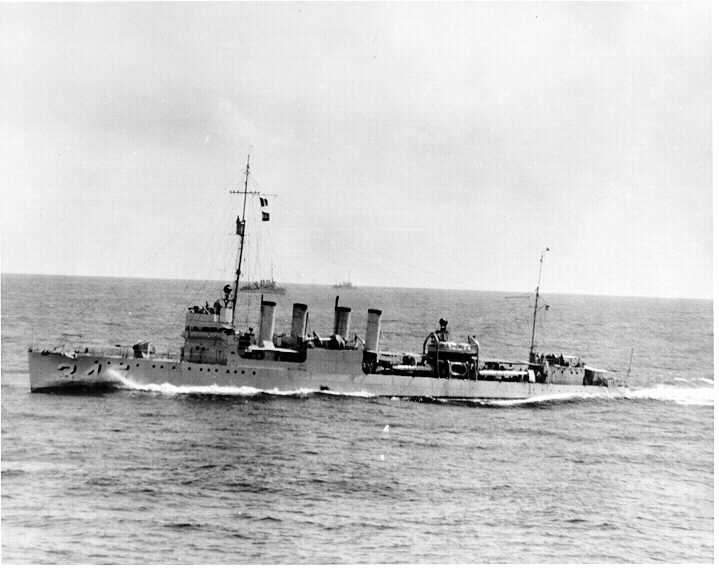 The U.S. Navy destroyer USS Preble (DD-345) at sea.